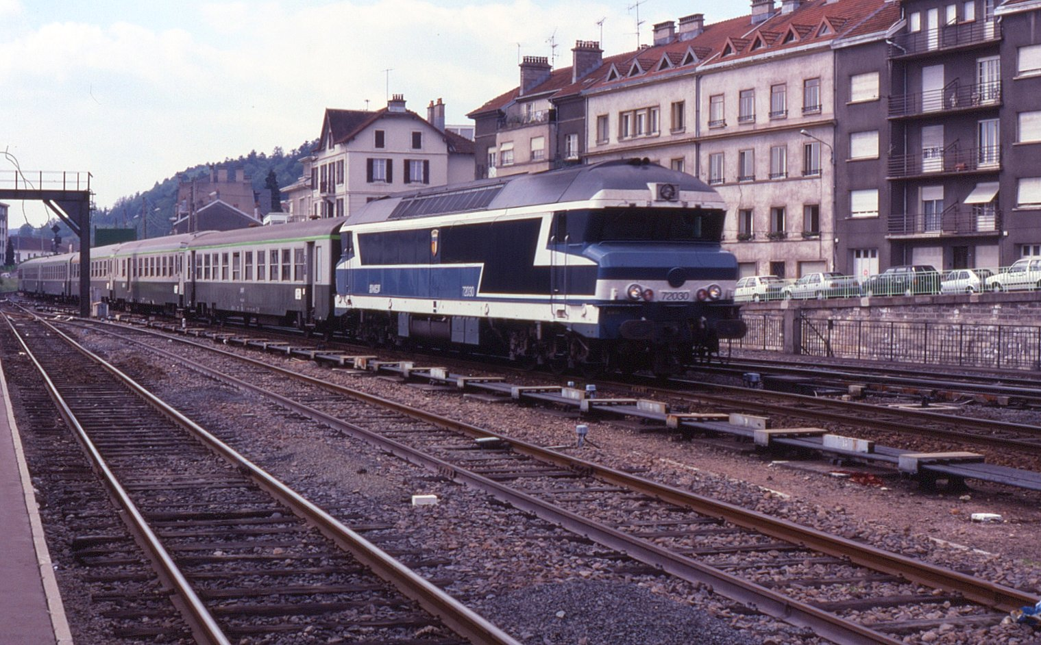 CC72030 photographed at Épinal on 4 June 1991 on a local service from Bélfort to Nancy.